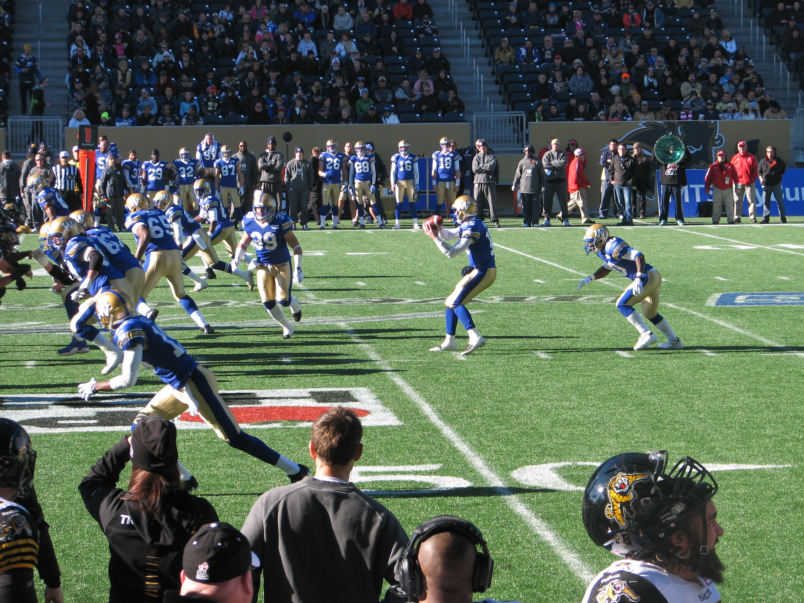 Investors Group Field, photographed on November 2, 2013, during the last regular season game for both the Winnipeg Blue Bombers and the Hamilton Tiger-Cats of the 2013 CFL Season. Quarterback Max Hall is seen in the centre of the photo, the starting QB for the Winnipeg Blue Bombers. The final score was Hamilton 37, Winnipeg 7.